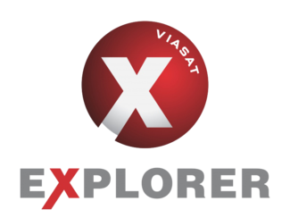 Logo Viasat Explorer, tv channel